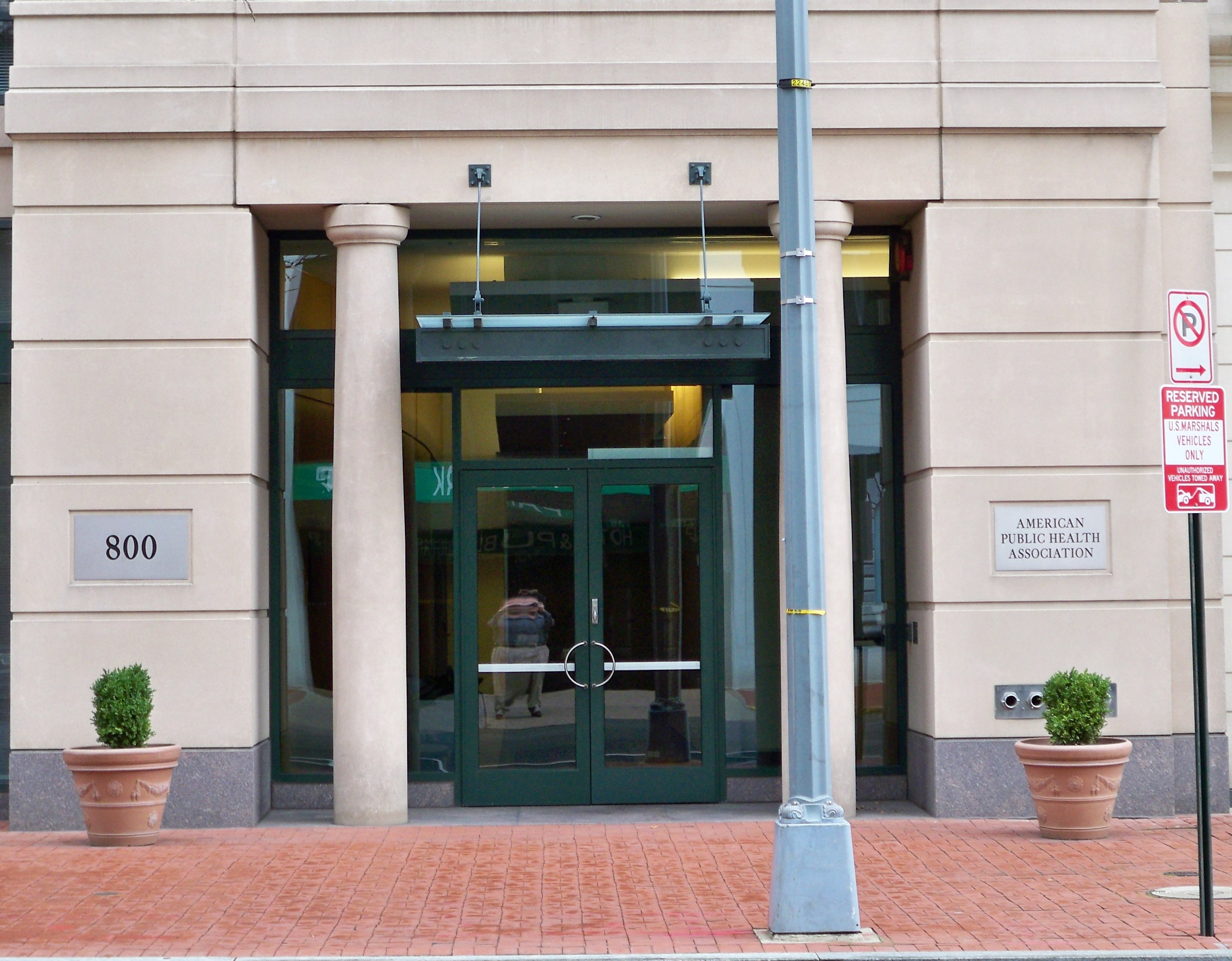 Exterior shot of the entrance to the American Public Health Association in Washington, DC.